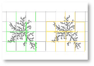 Illustrates optimal covering issues with box counting.